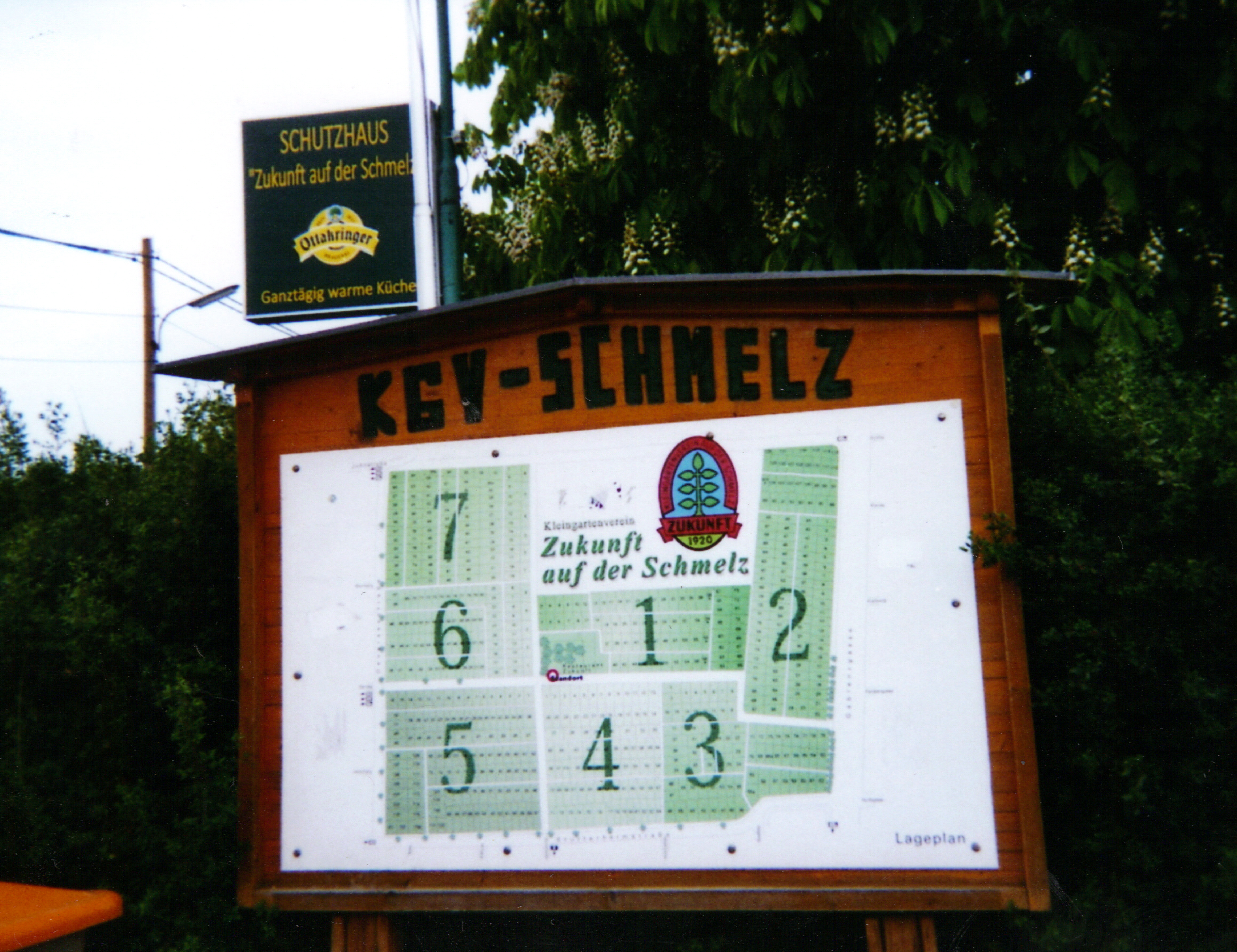 Map of small garden colony Schmelz, Vienna